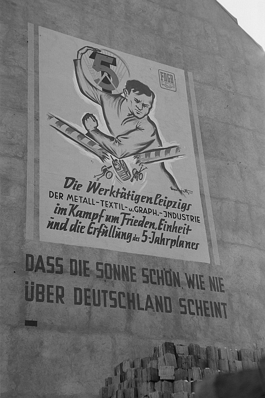 Original image description from the Deutsche FotothekPropaganda-Plakat der Nationalen Front an einer Hauswand